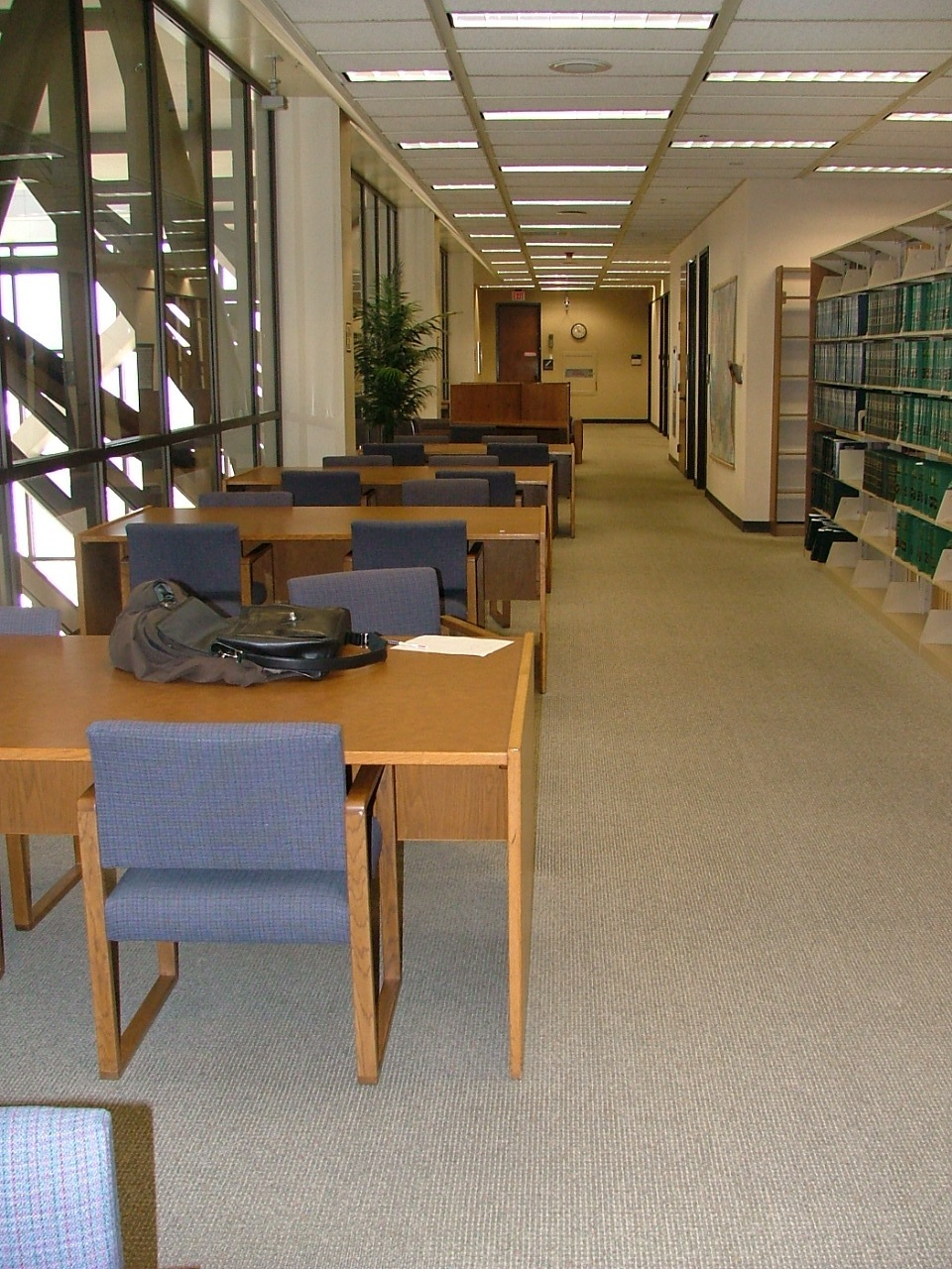 Law Library